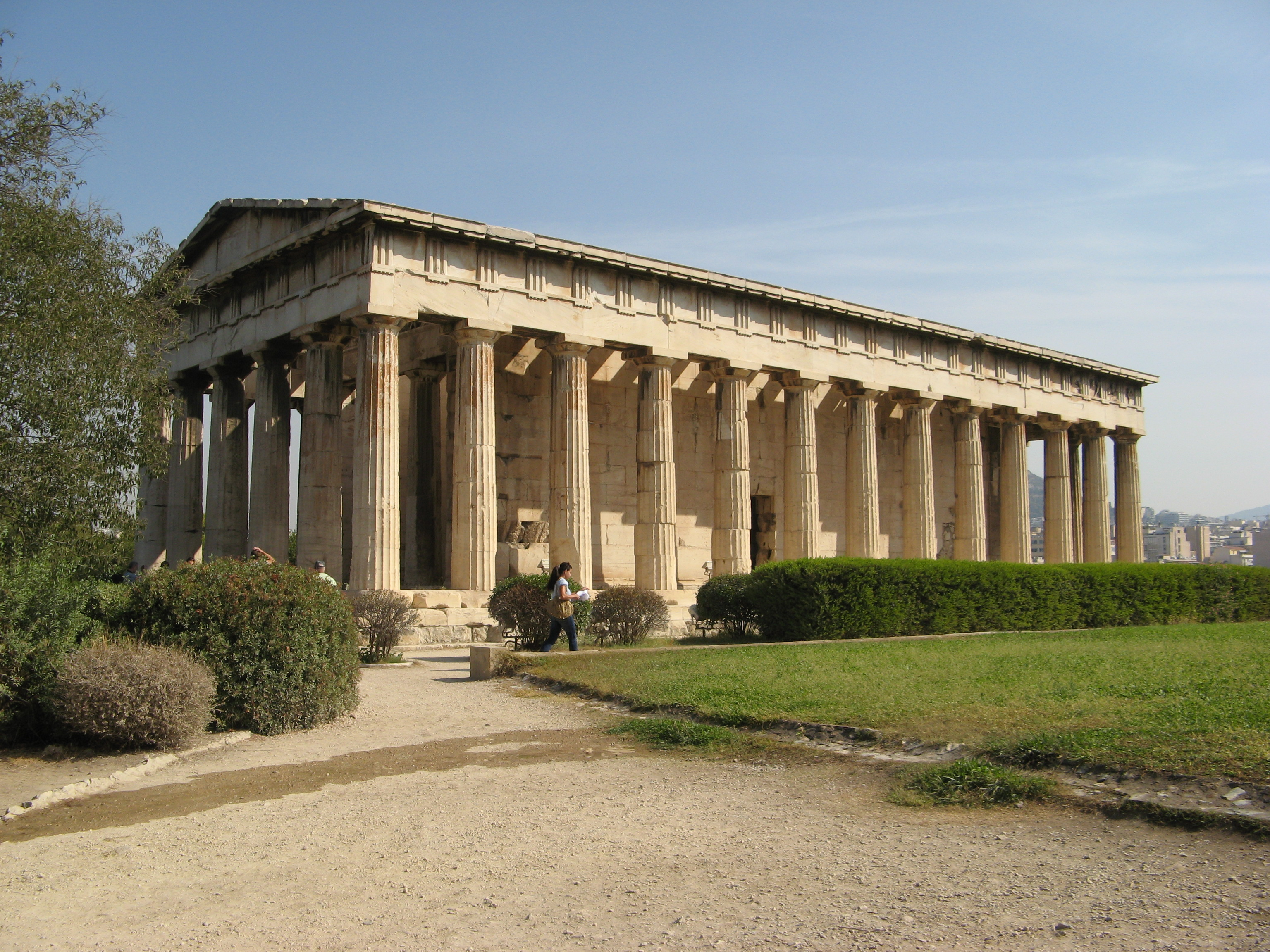 The Temple of Hephaistos in Athens